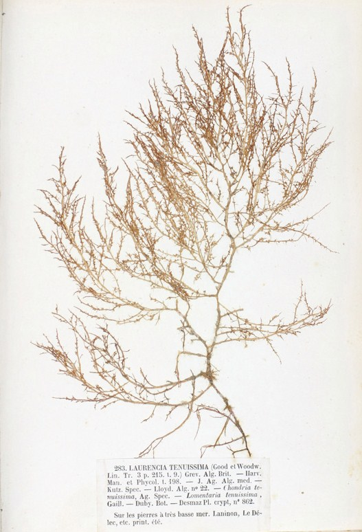 « Laurencia tenuissima » = Chondria capillaris